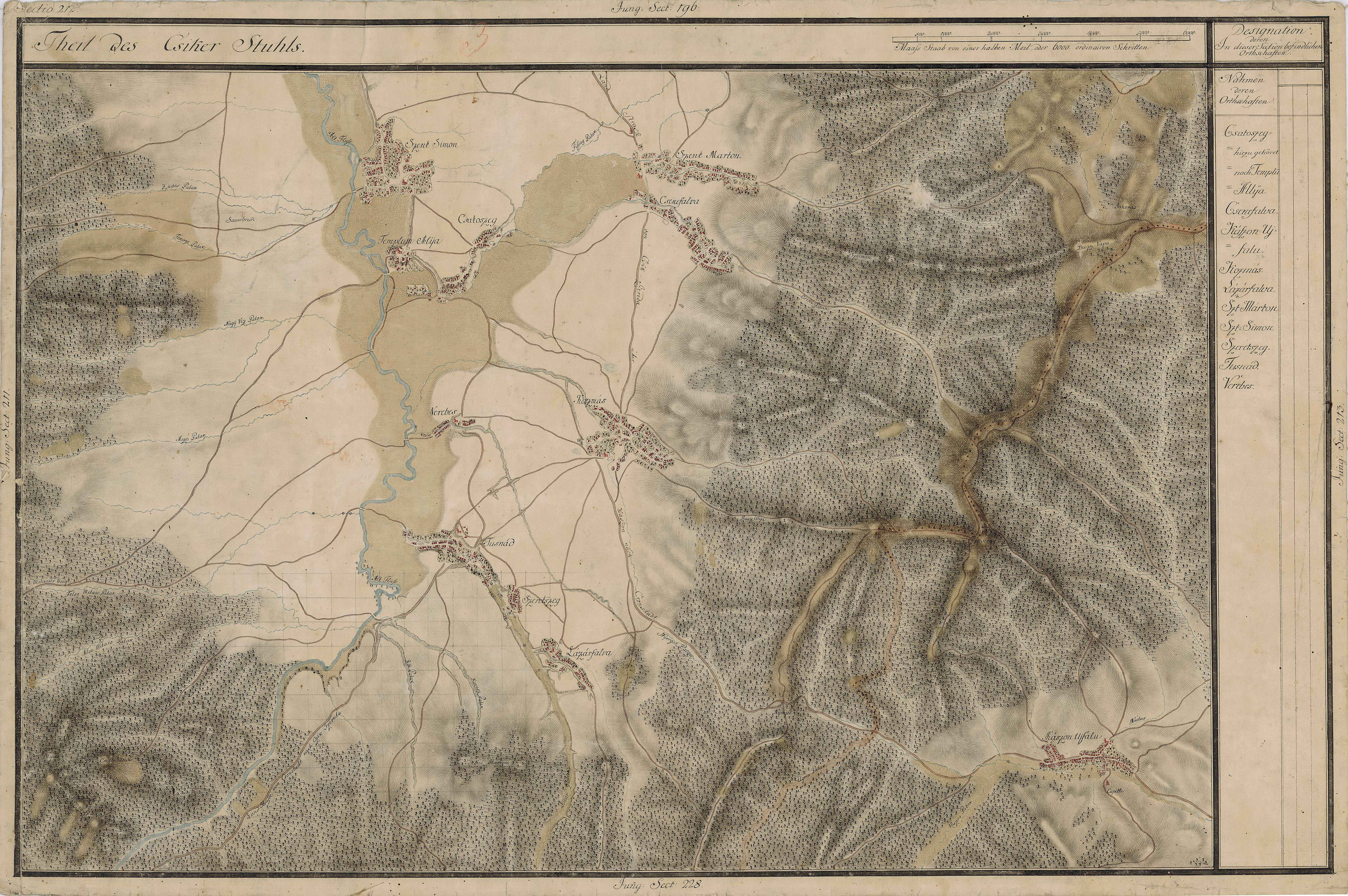 Grand Duchy of Transylvania, 1769-1773. Josephinische Landaufnahme pg.212